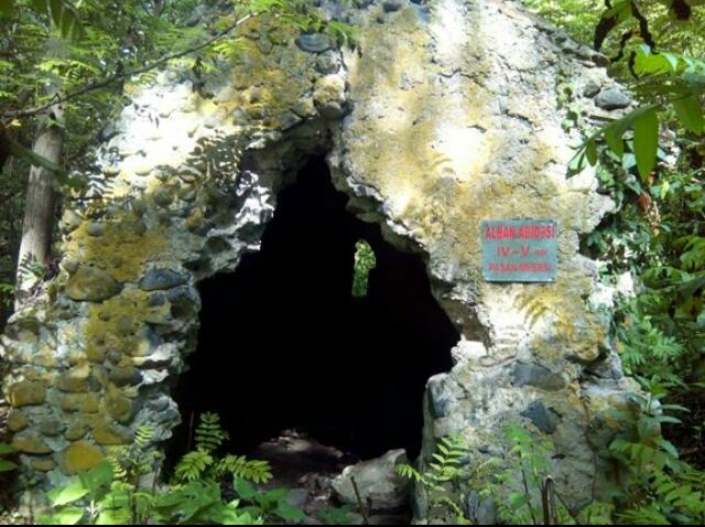 Albanian church ruins in Pashan village, Zaqatala District, Azerbaijan.